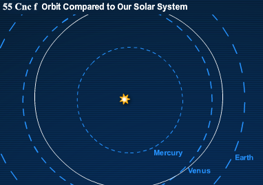 55 Cancri f's orbit compared to the orbit of Venus (0.72AU) in our Solar System. This planet has half the mass of Saturn and orbits about where Venus is in our system.